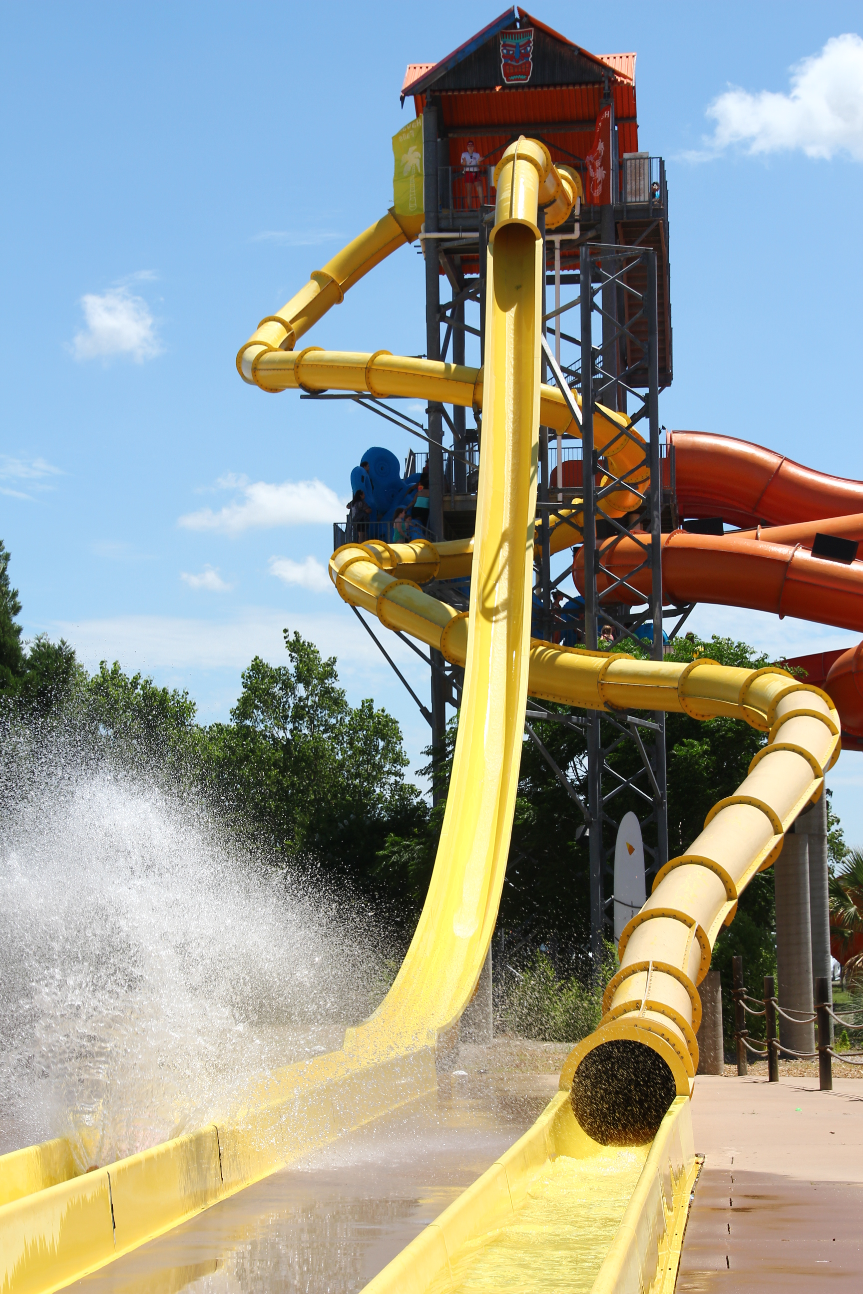 The Waikiki Wipeout water tube slide ride at Hawaiian Falls waterpark in The Colony, Texas.